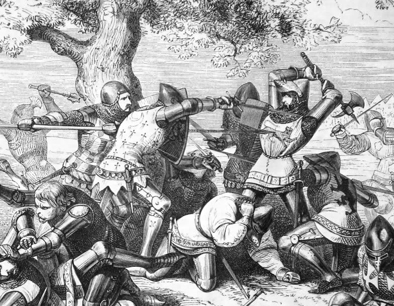 19th century illustration of the death of Robert Bemborough during the Combat of the Thirty, 1351; Breton War of Succession